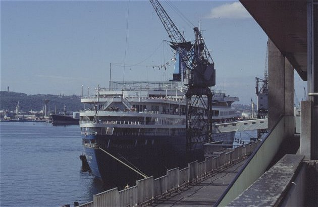 Achille Lauro)